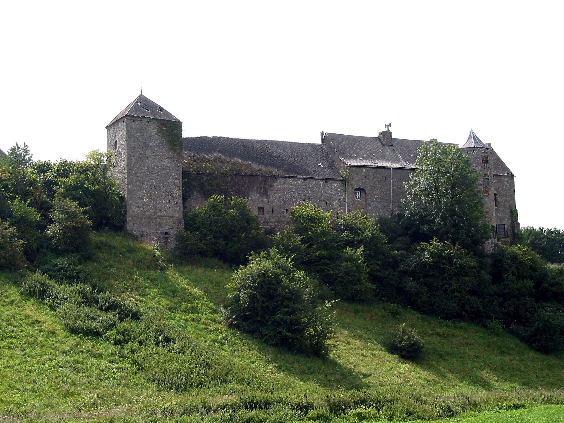 Balâtre (Belgium), the castle-farm (XIII-XVIth centuries).